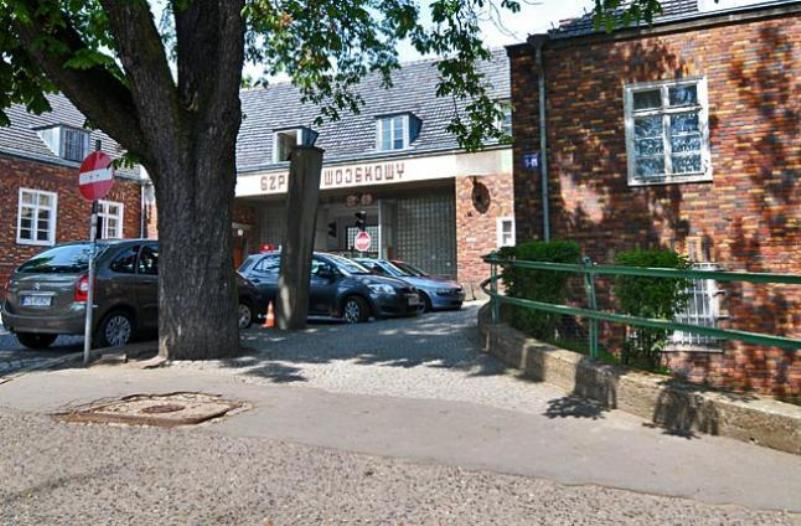 Widok na główne wejście do 109 Szpitala Wojskowego